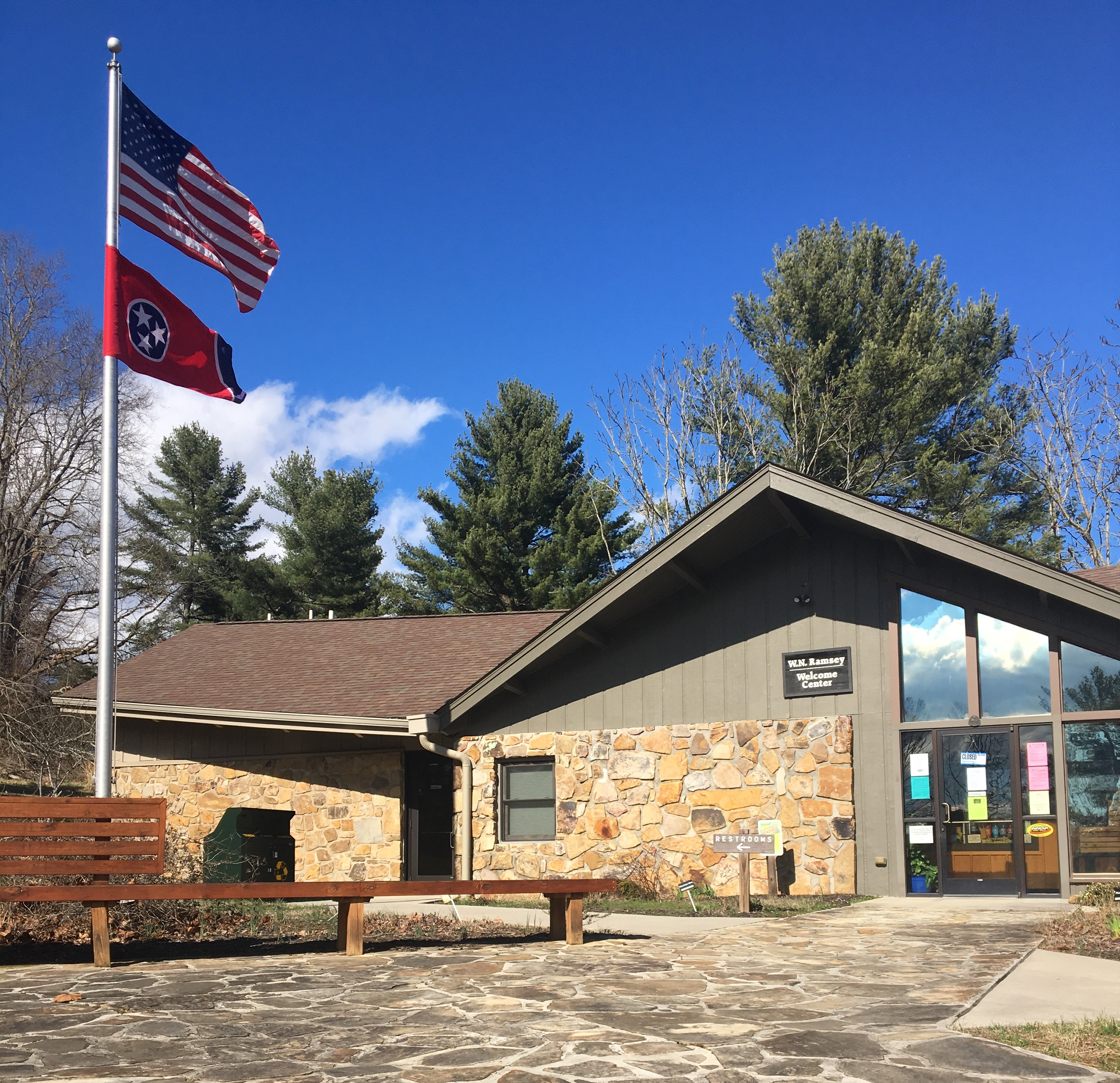 The W. N. Ramsey Welcome Center at Panther Creek State Park in Morristown, Tennessee taken in 2019